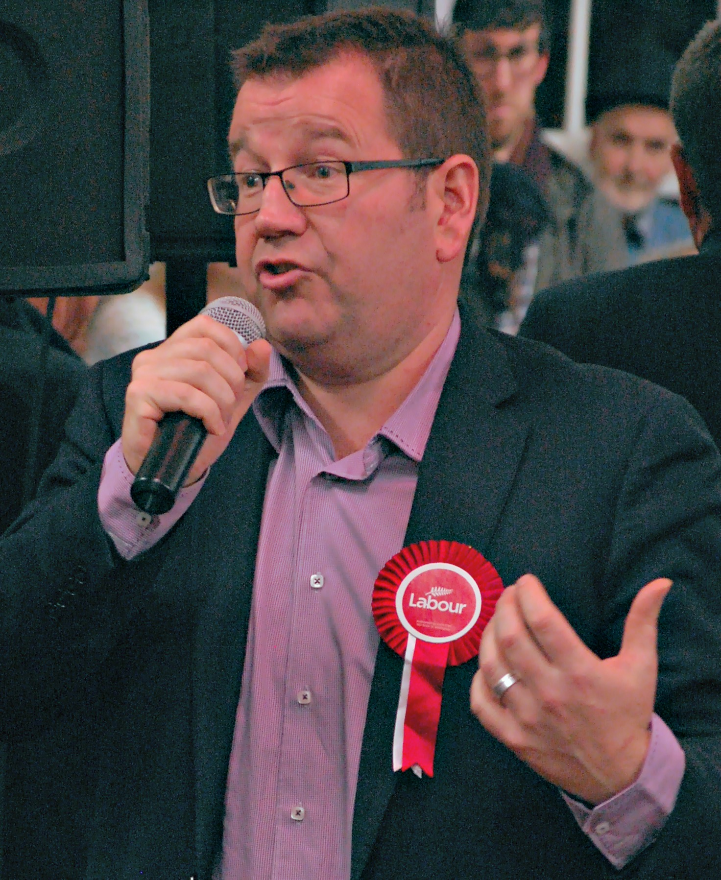 Crop of Grant Robertson speaking at the 2014 Aro Valley candidates meeting.